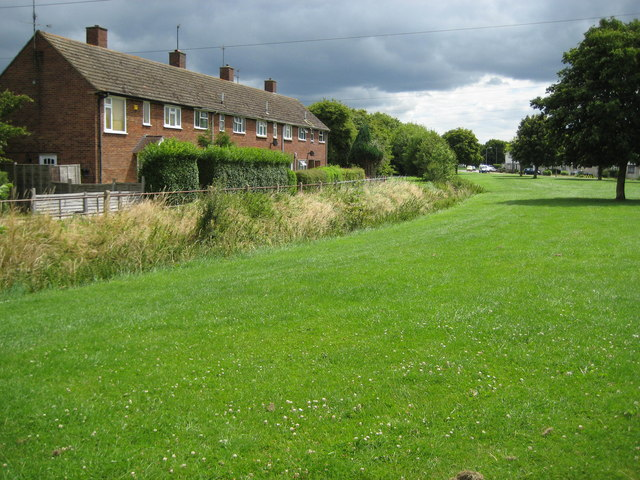 Southcourt Brook in Aylesbury Southcourt Brook is a tributary of Bear Brook and the River Thame. The wide open green areas epitomise the design of Aylesbury's Southcourt Estate as a garden village.